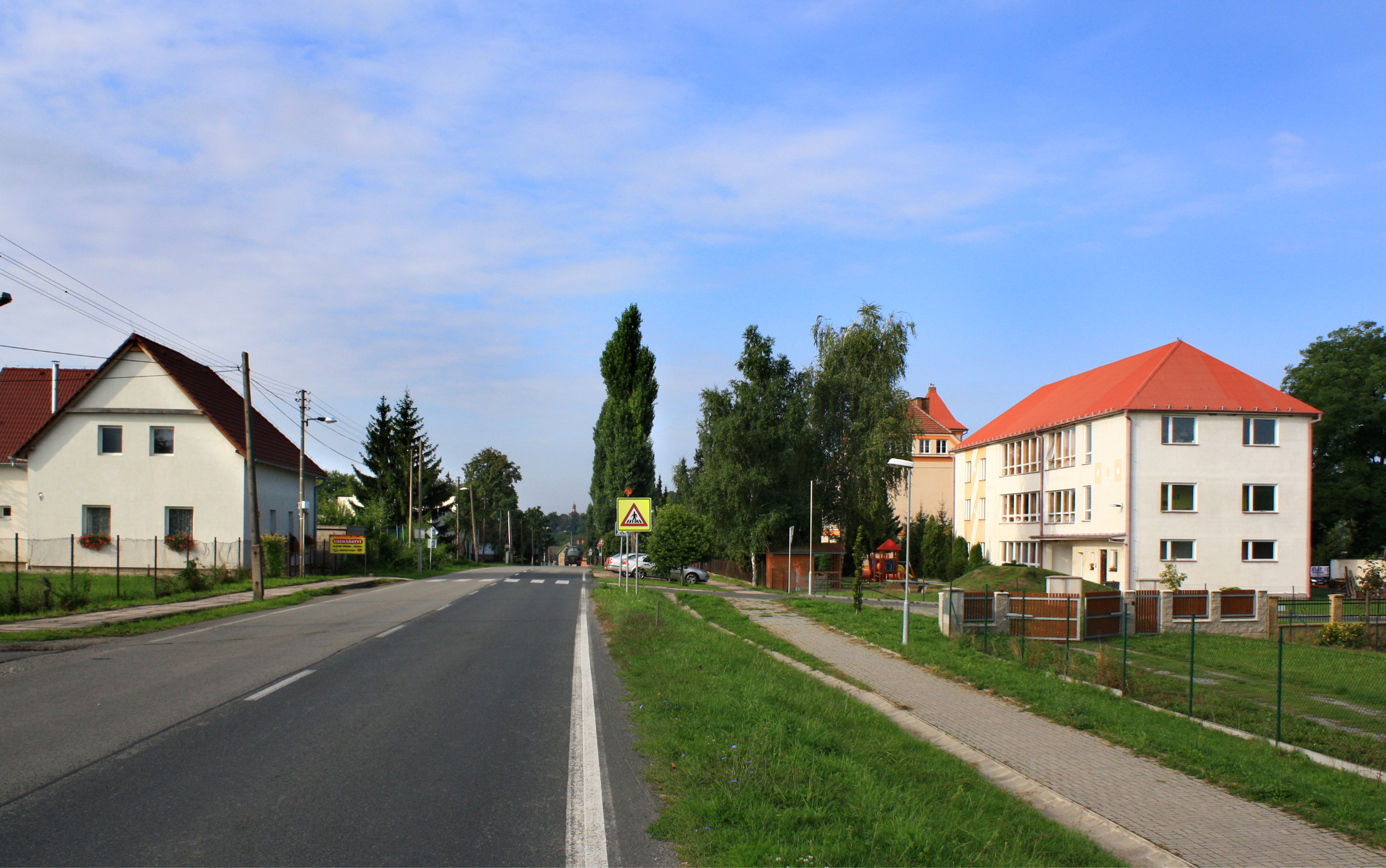 Rudé armády street in Brodce, Czech Republic